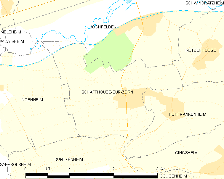 Map of French municipality